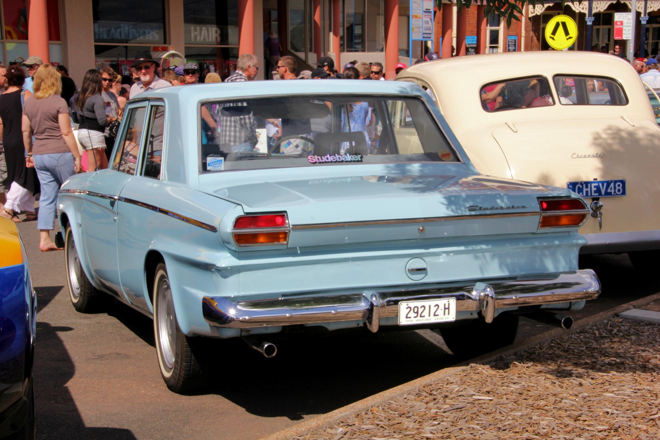 1964 Studebaker Commander sedan. Based on the colour I would guess it is one of the ones assembled in Melbourne for the Victoria Police. Taken at the 2012 Kurri Kurri Nostalgia Festival, held in Kurri Kurri, New South Wales.